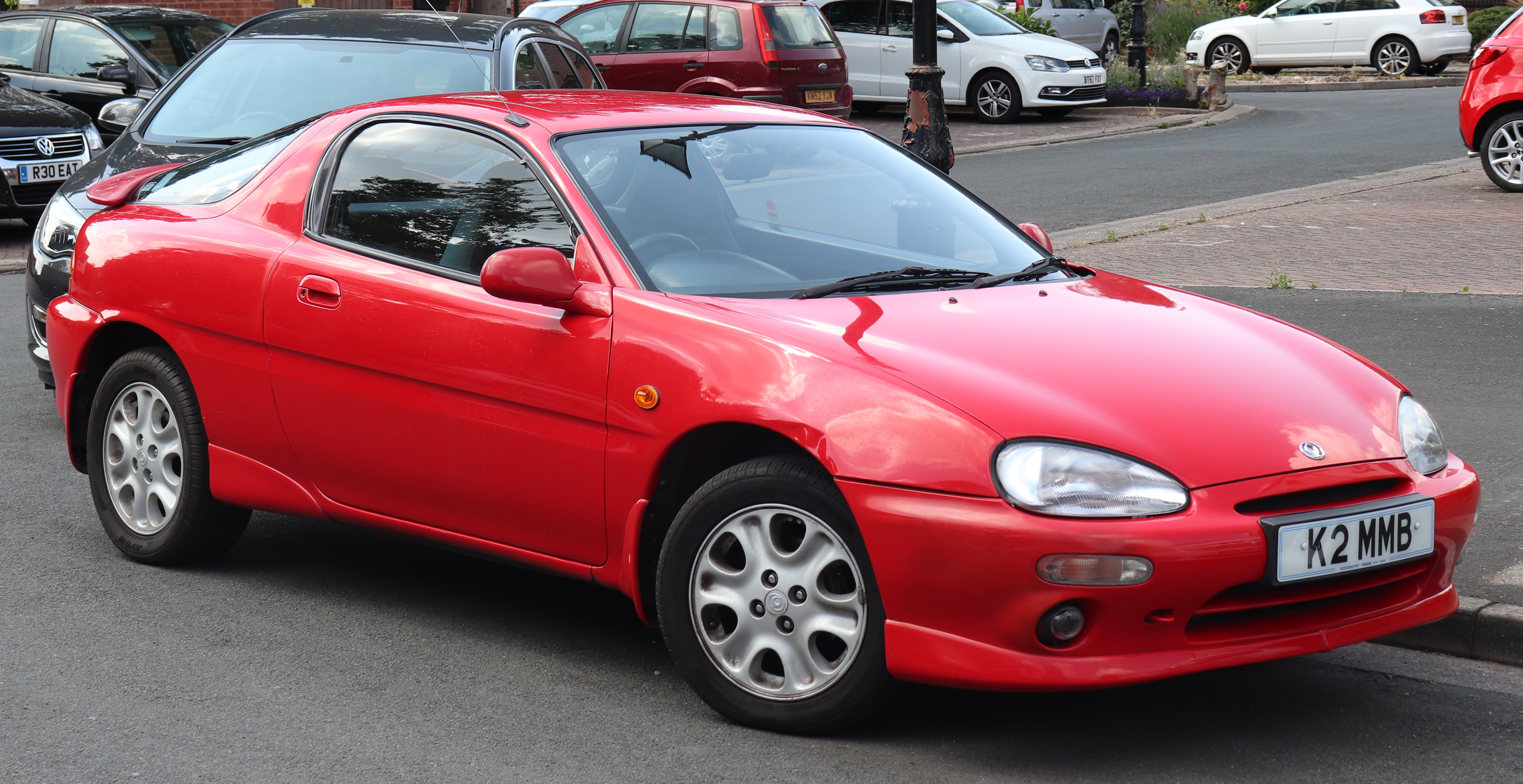 1992 Mazda MX-3 ABS 1.8 Front Taken in Warwick